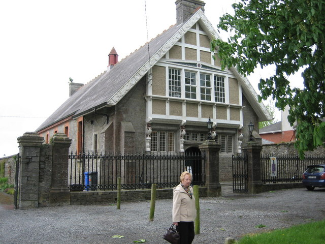 Birr Theatre and Arts Centre. Nestled in the tree lined Oxmantown Mall, Birr Theatre and Arts Centre is a dedicated purpose built theatre, which dates from 1888. Having fallen into disrepair over the past twenty years the building has recently been restored to its original glory and is now a high quality facility.